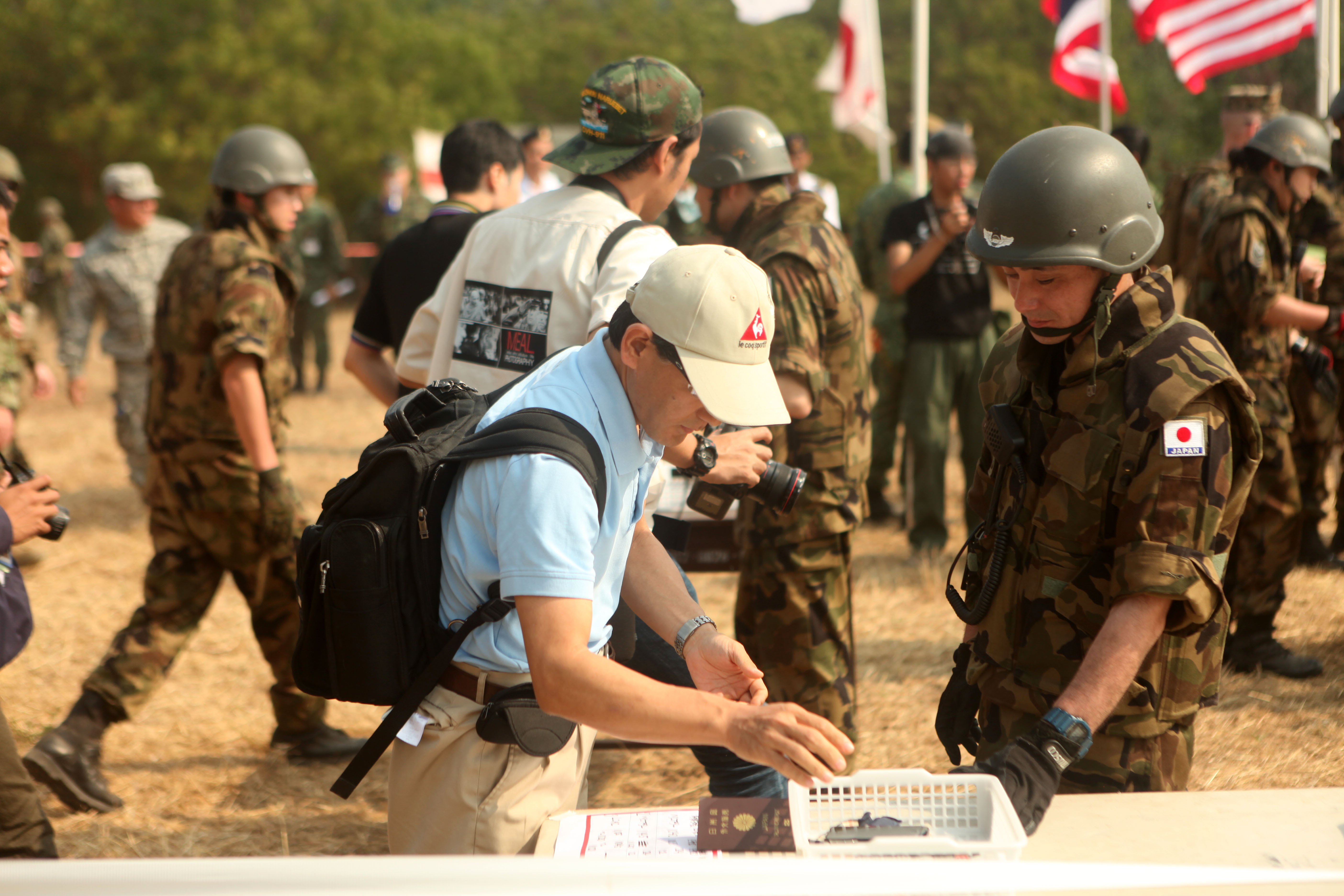 A Japanese citizen empties his pockets to be searched by a service member in the Japanese Air Force during a non-combatant evacuation operation, Feb. 12. Royal Thai military, the Japanese Self-Defense Force and the 31st Marine Expeditionary Unit participated in the NEO, conducted during Cobra Gold 2011. Cobra Gold 2011 ensures the region is adequately prepared for humanitarian disasters, such as the December 2004 Indian Ocean tsunami and Cyclone Nargis in May 2008.